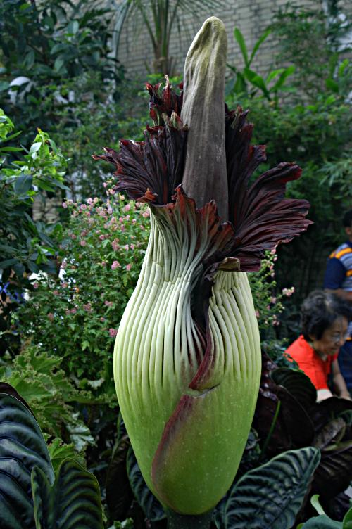 Photo of Titan Arum flower taken by me and released under the GNU FDL Taken at the U.S. Botanic Garden in Washington, DC on July 24th, 2003 Smaller version: Image:Titan arum.376.jpg Image:Titan arum.752.jpg